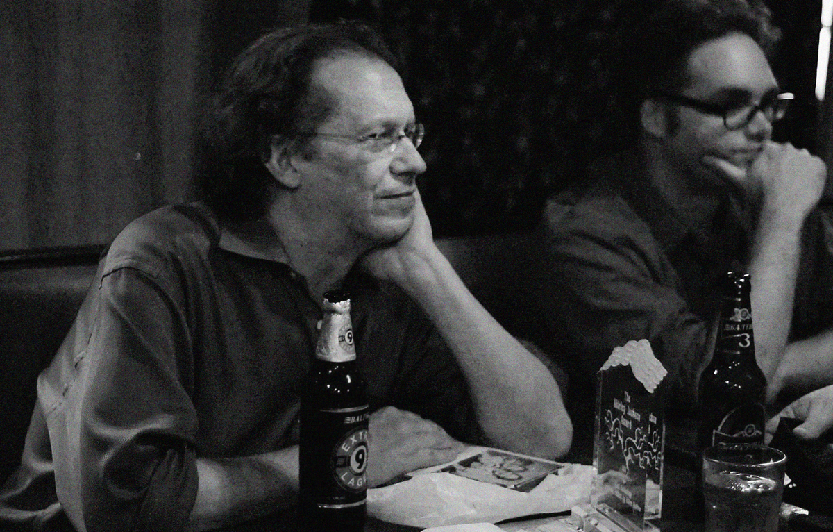 Jack Womack at the Shirley Jackson Award Benefit at the KGB bar in New York City, New York, on 23 July 2008.